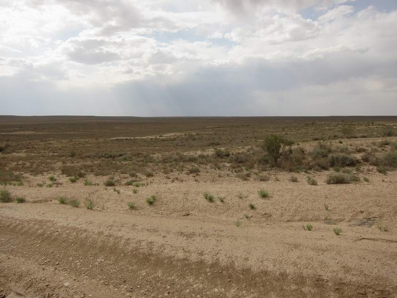 Ridge Karabaur, Ustyurt plateau. See more details on